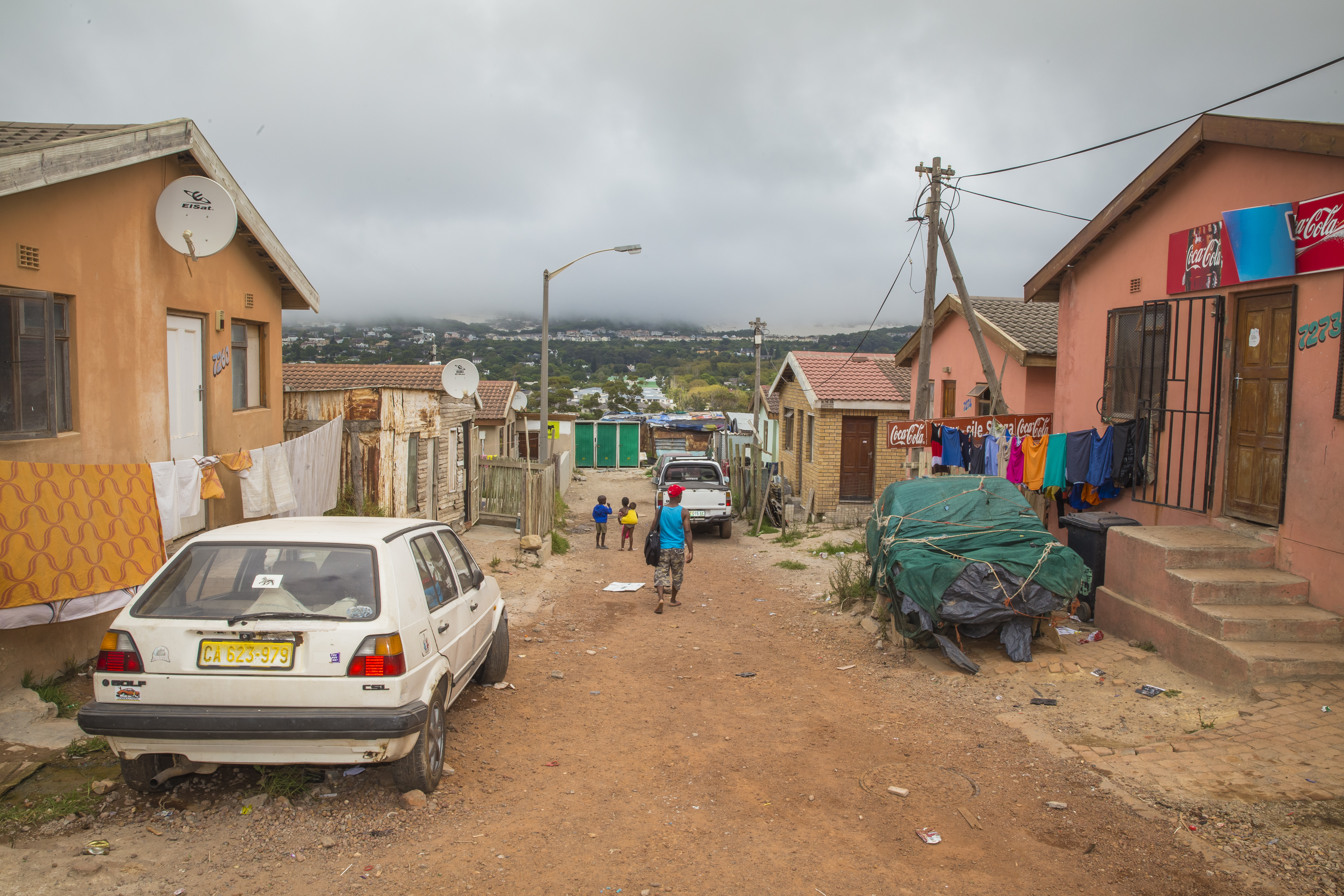 South Africa - Cape Town Imizamo Yethu Township